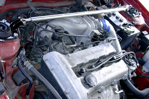 Summary 1995 Mazda MX-3 16V DOHC FL - cLuKe - 10.2005 Licensing